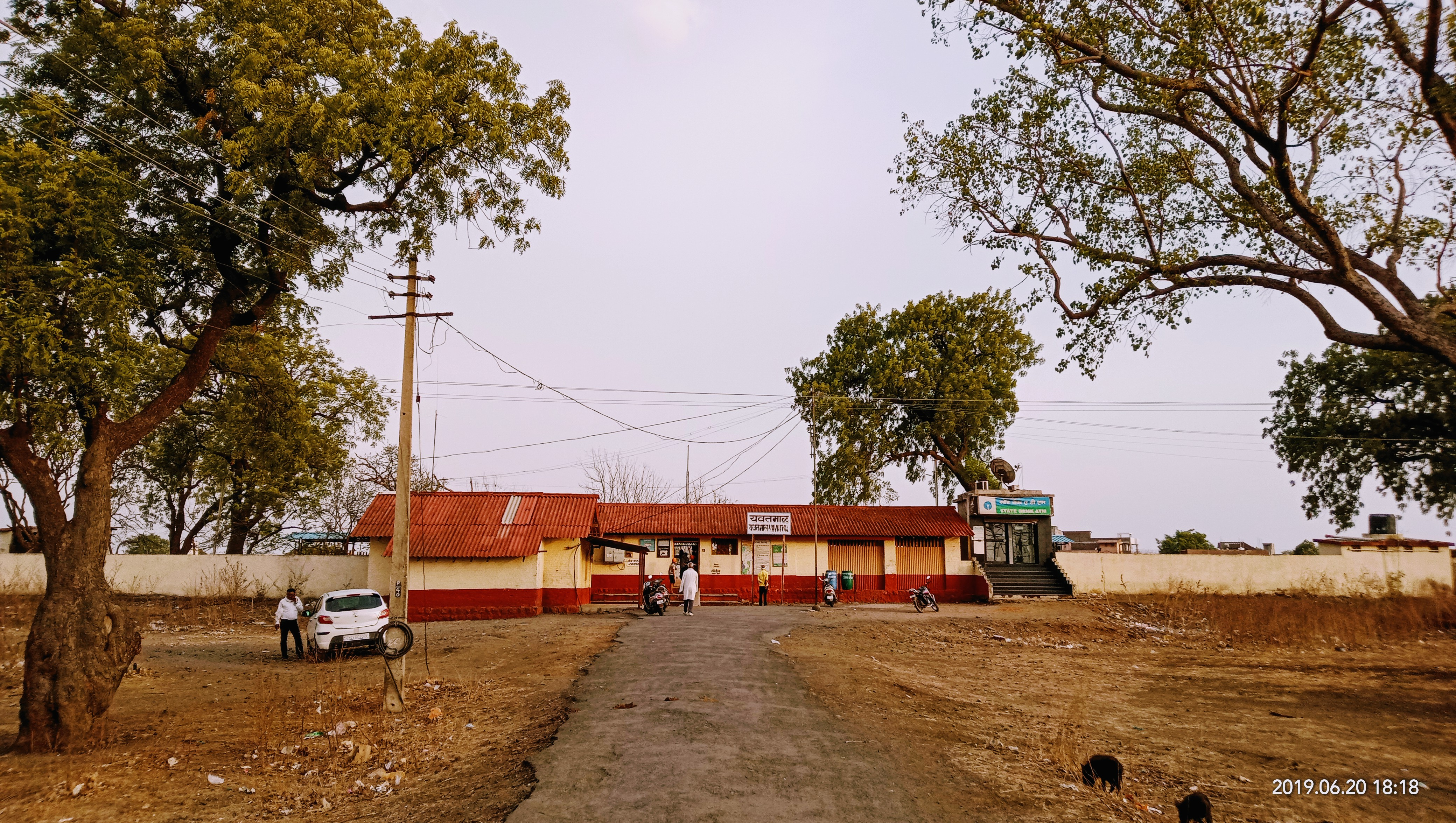 Yavatmal railway station built in british period having only one rail with name shakuntala